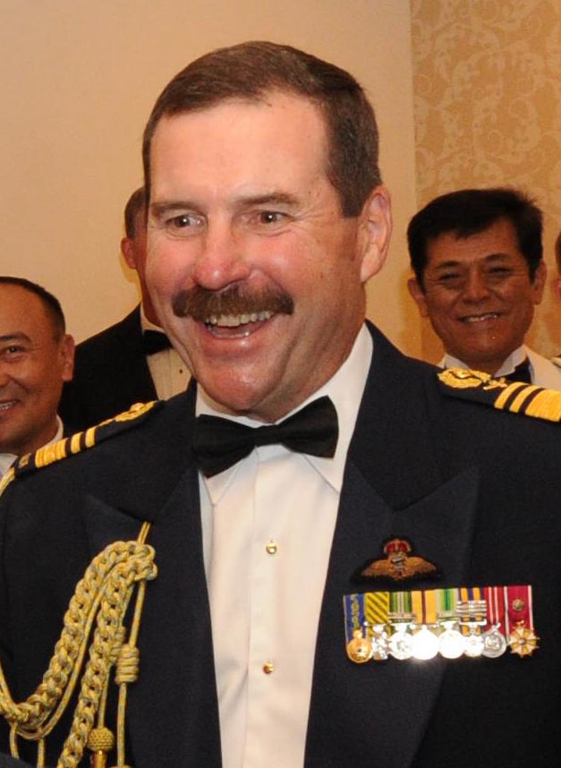 Air Marshal Gavin Davies, Chief of the Royal Australian Air Force at the 68th Annual Air Force Birthday Ball in Honolulu, Hawaii, Sept. 11, 2015.